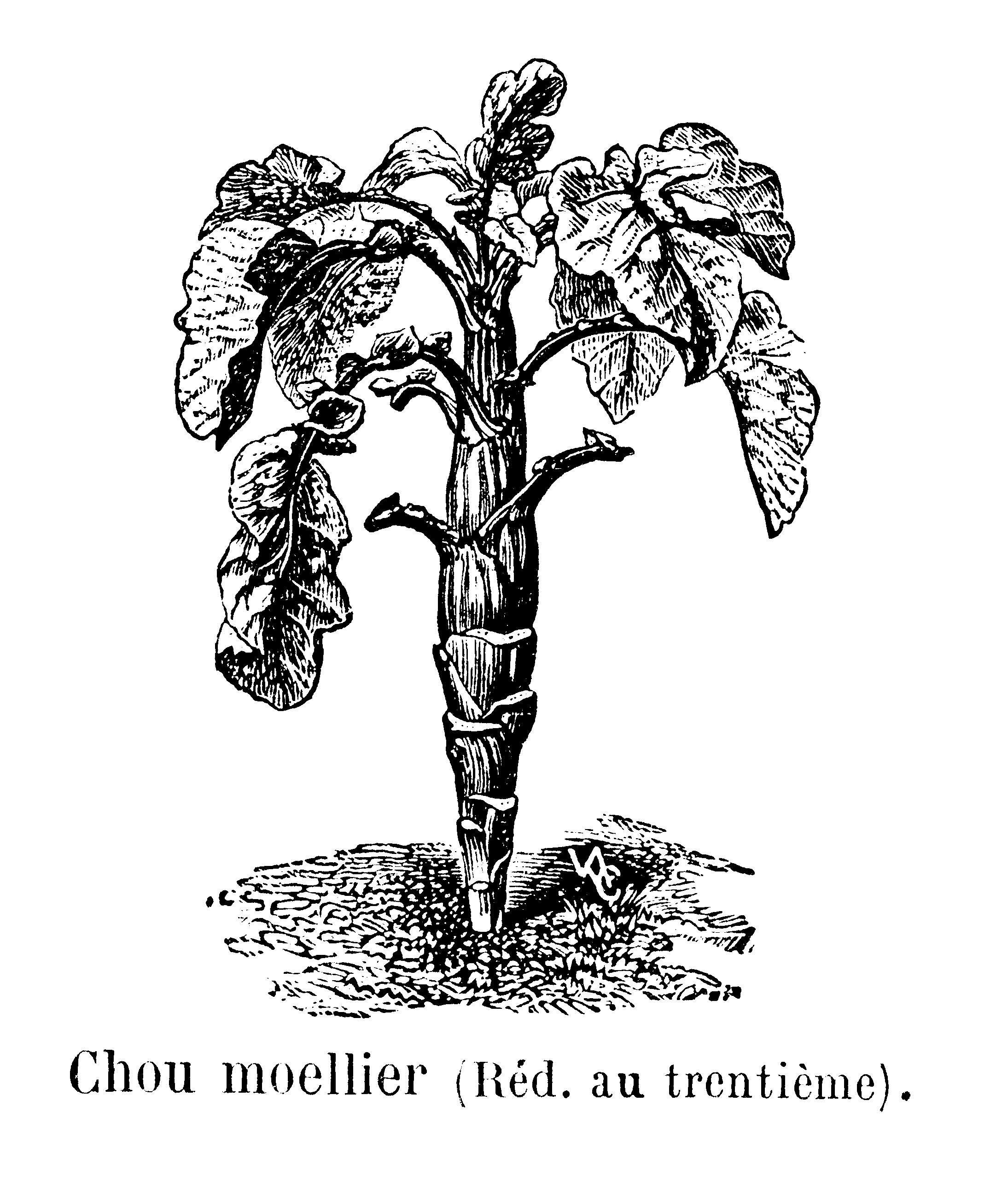 marrow cabbage